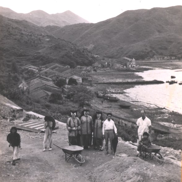 1951 of Hang Hau